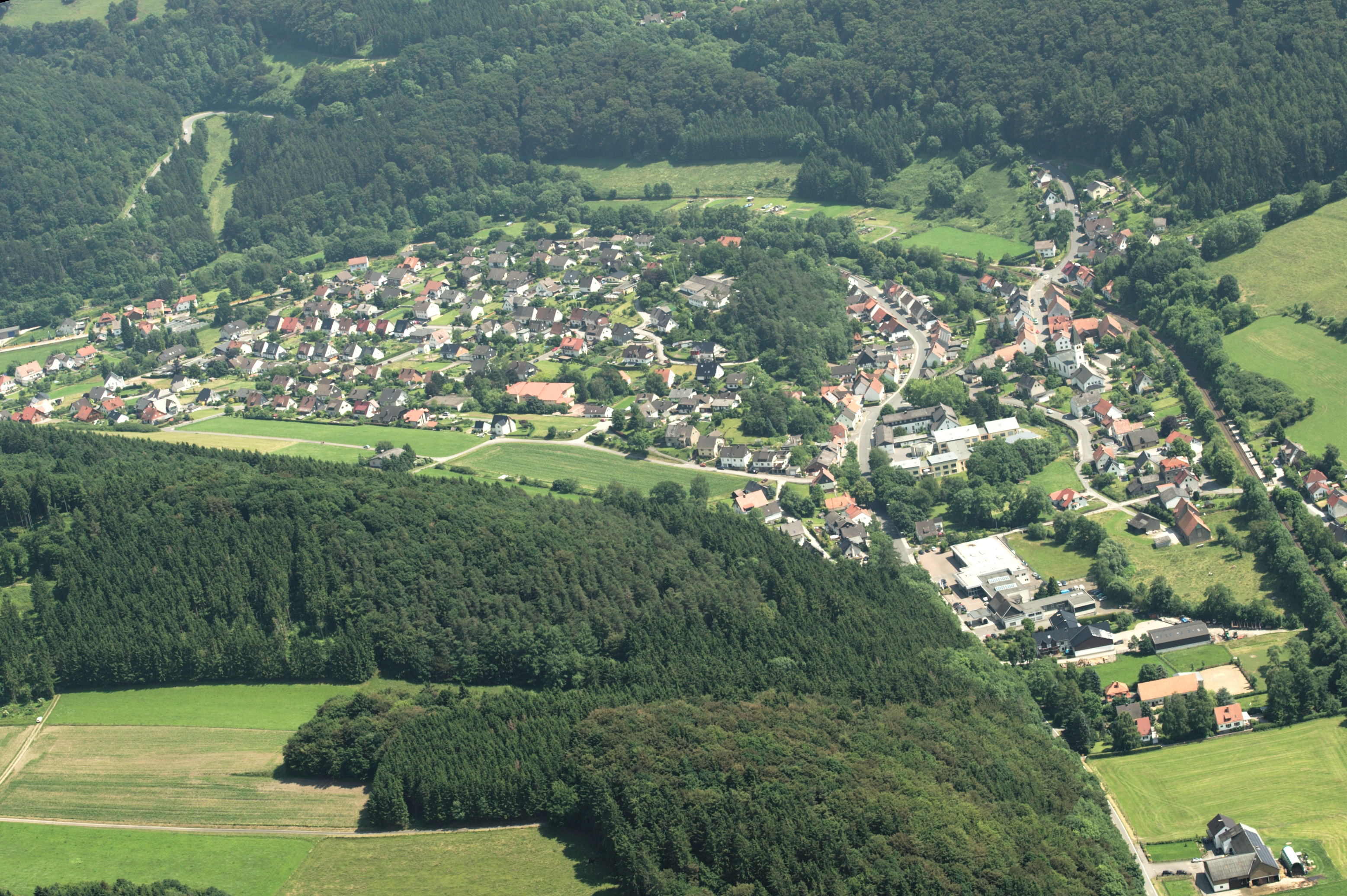 Fotoflug Sauerland-Ost, Beringhausen, Marsberg The making of this document was supported by the Community-Budget of Wikimedia Germany.